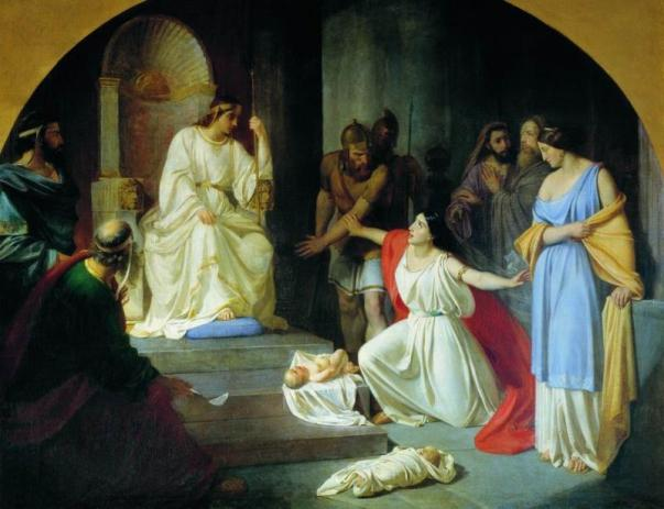 Judgement of Solomonlabel QS:Len,"Judgement of Solomon"label QS:Lru,"Суд царя Соломона"